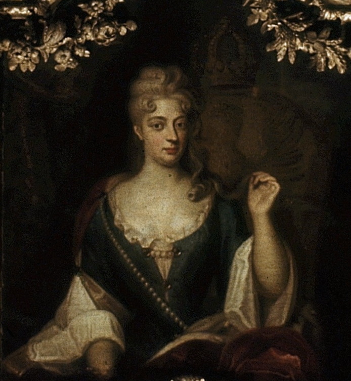 Portrait of Sophie Dorothea of Prussia as crown princess